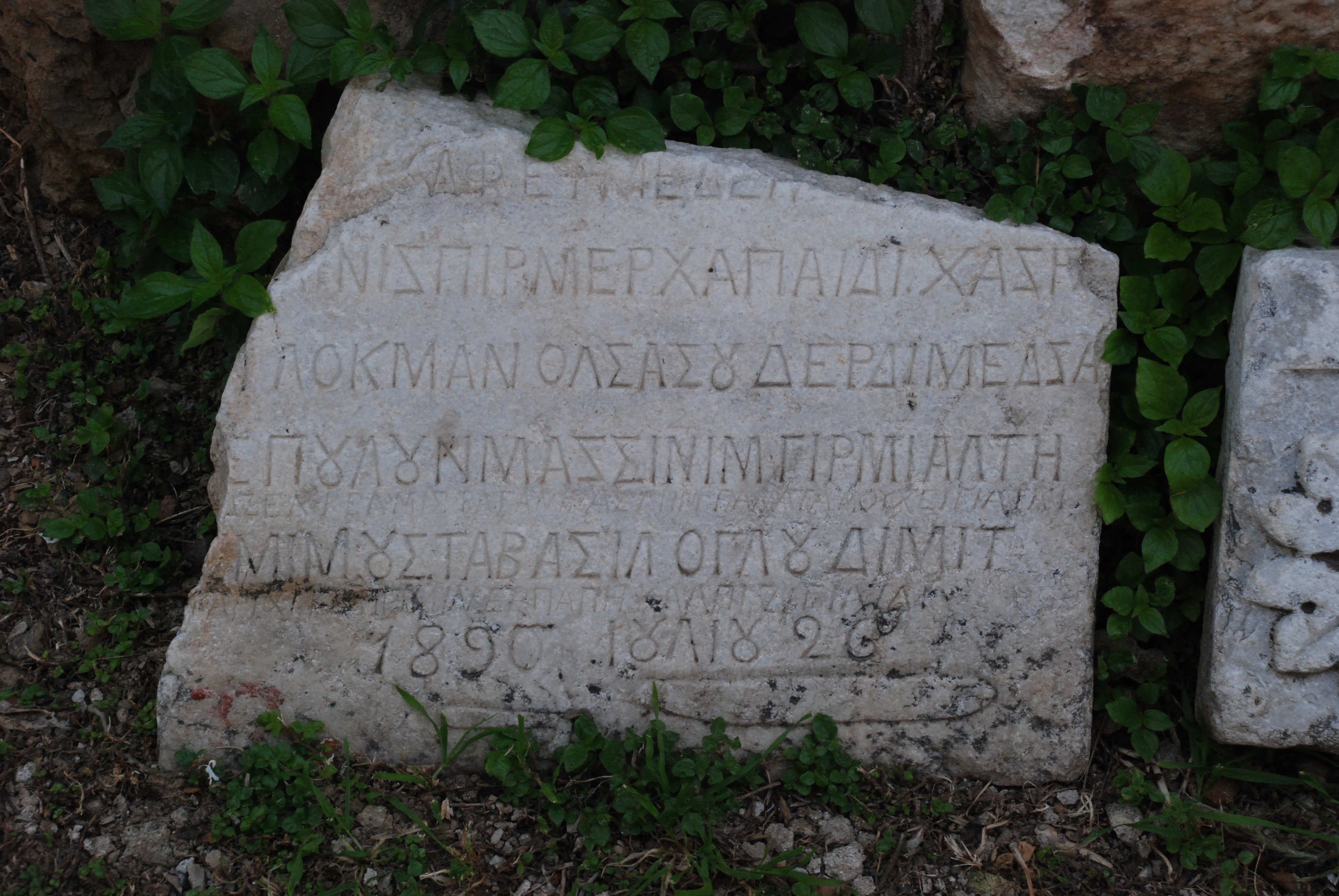 Tombstone in the garden of the Church of St John, Alaşehir (ancient Philadelphia). Written in Karamanli Turkish. The inscription reads